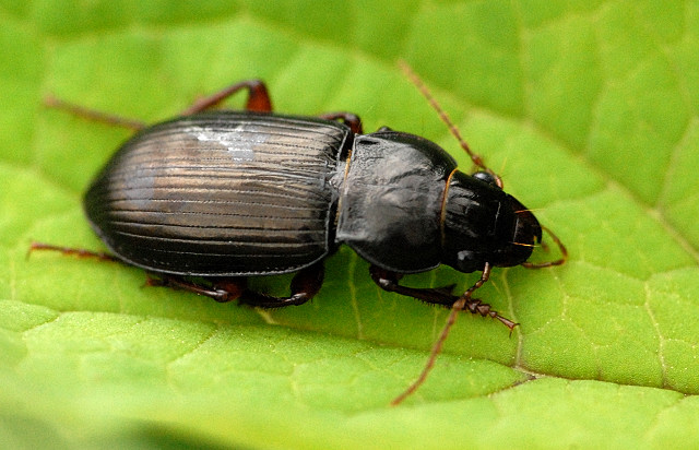 Amara aulica from Commanster, Belgian High Ardennes .